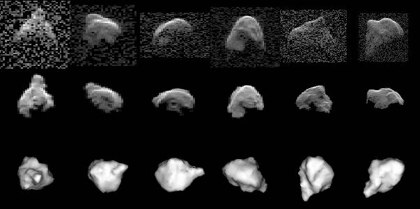 Radar images and computer models of 1999 JM₈